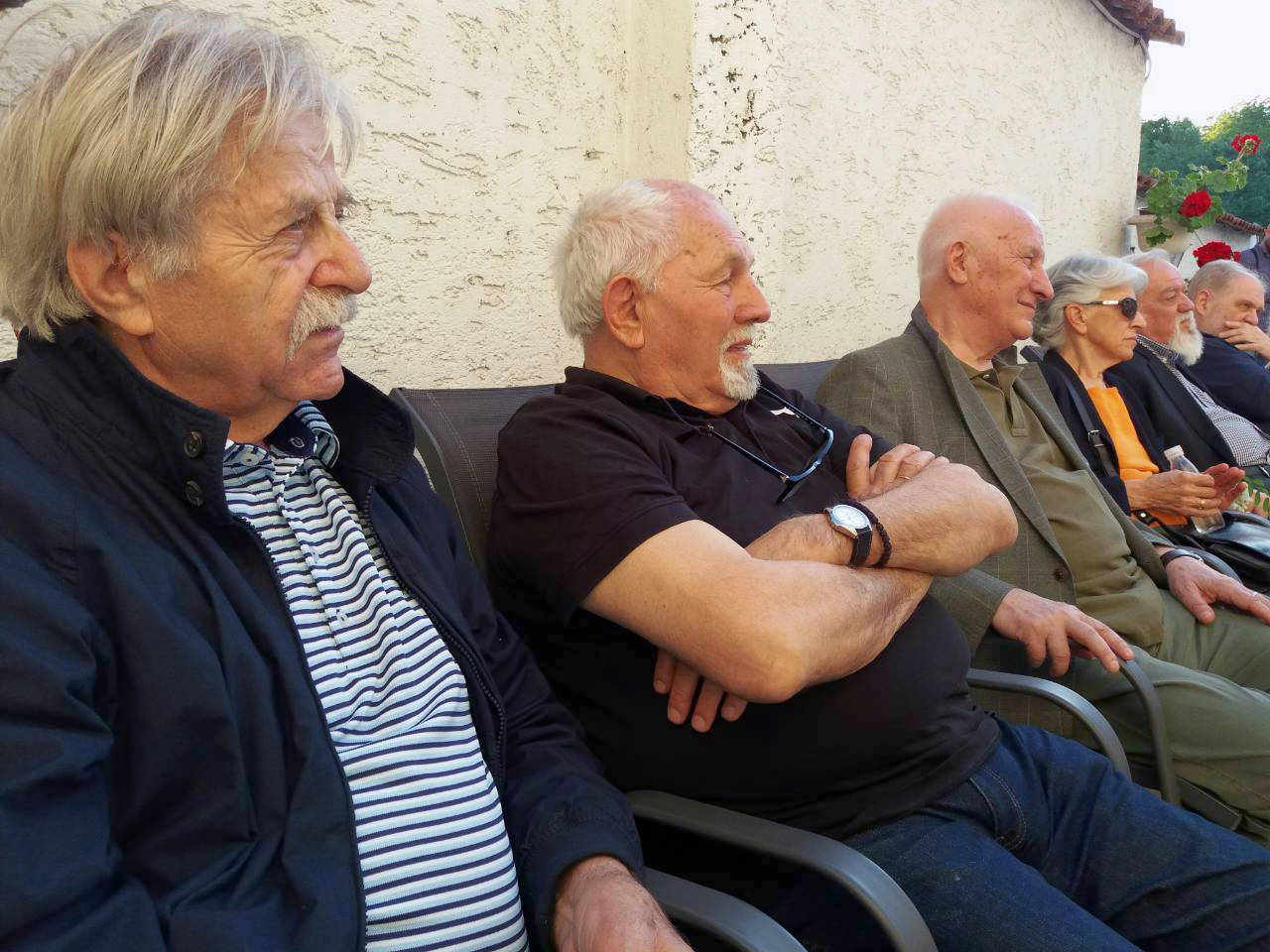 Ljubivoje Ršumović, Milovan Danojlić and Matija Bećković during an event of opening the library of Marko S. Marković in the Society for Culture, Art and International Cooperation Adligat in Belgrade, Serbia. Српски (ћирилица): Љубивоје Ршумовић, Милован Данојлић и Матија Бећковић (слева) на отварању библиотеке Марка С. Марковића у Удружењу за културу, уметност и међународну сарадњу „Адлигат" у Београду.